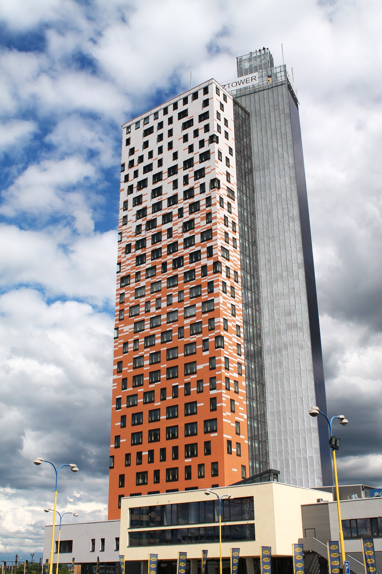 AZ Tower, Brno, Czech Republic - OpenStreetMap(Info)